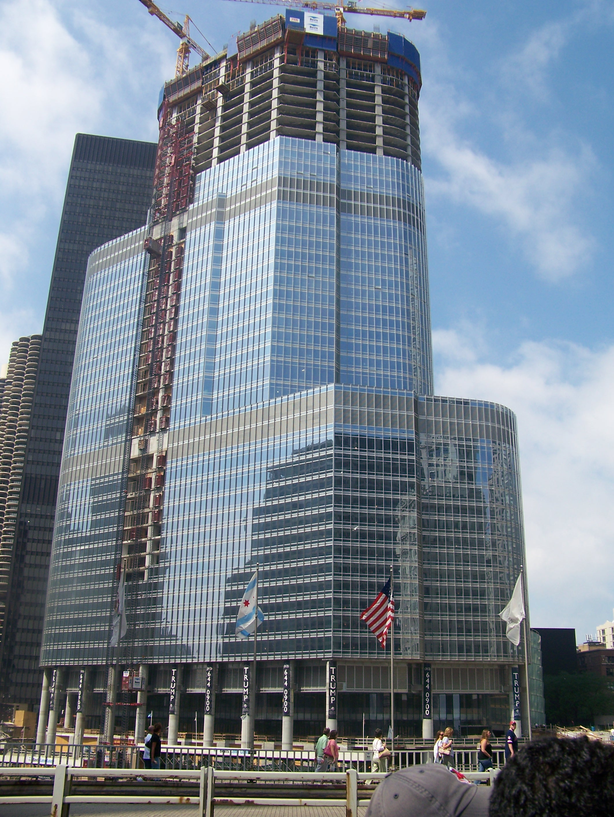 The construction of the Trump International Hotel and Tower, as seen from the Michigan Ave. bridge on August 25, 2007.